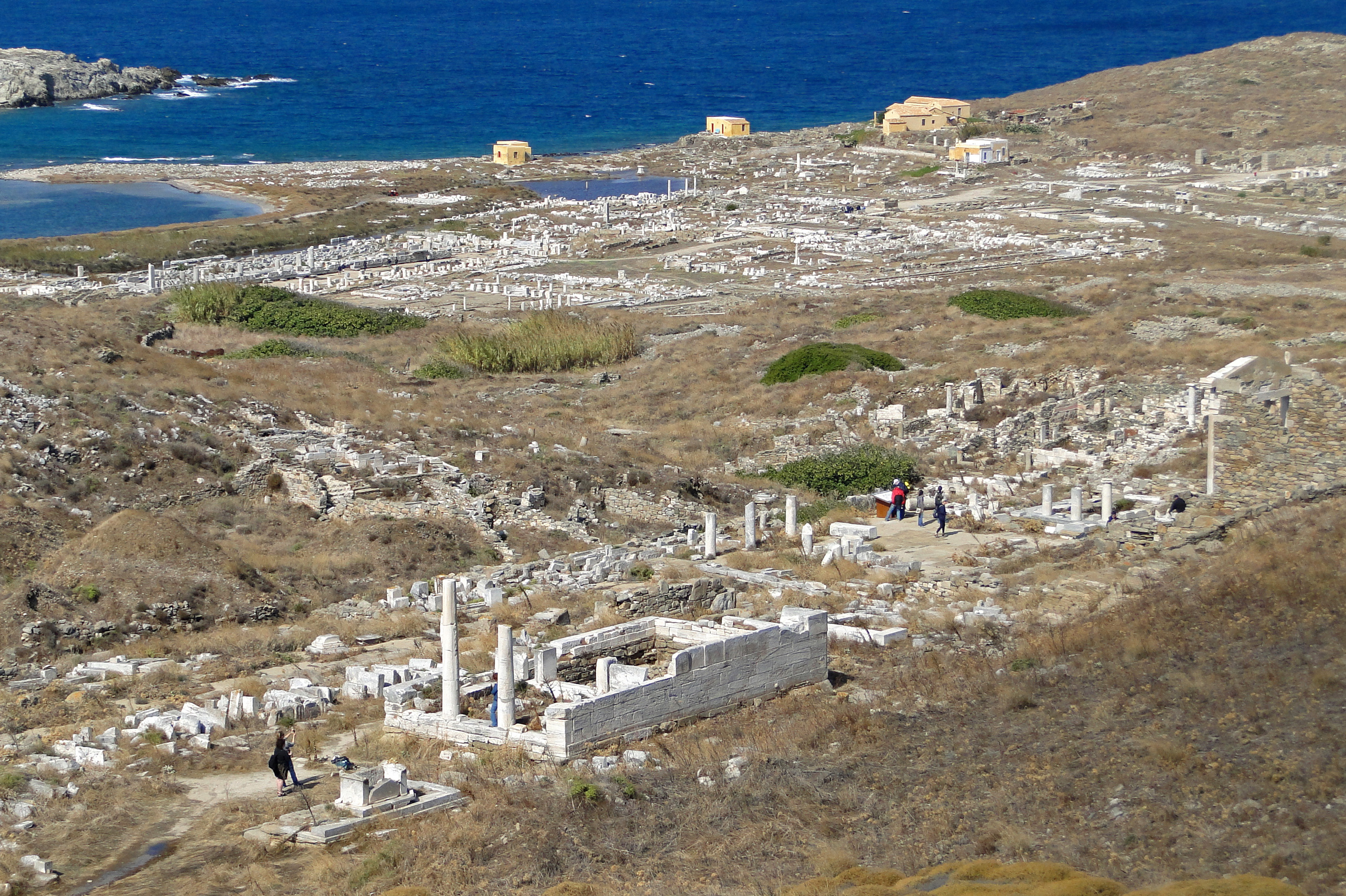 View of the site of Delos from the Mount Cynthus, Greece